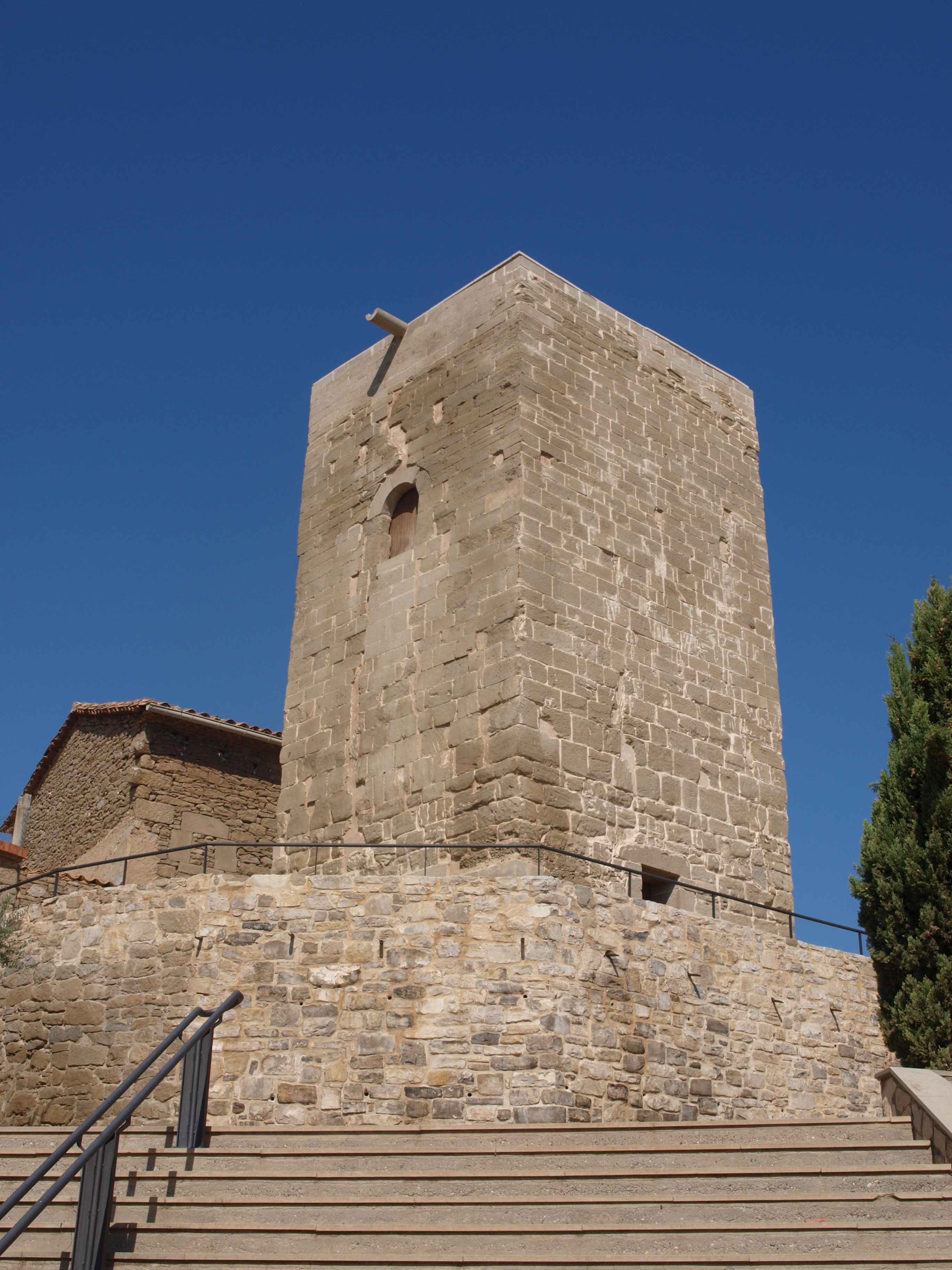 Tower at La Guàrdia d'Urgell